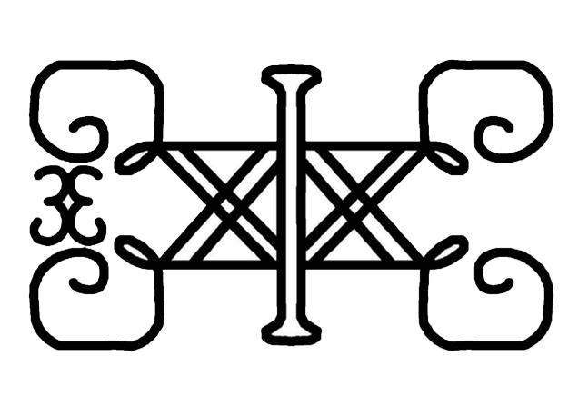 The symbol from a traditional collar cape is from the 1927 book by Frank Speck "Symbols In Penobscot art." It was a symbol worn by leading Chiefs when the tribes of the Wabanaki came and assembled together for a ceremony. This would also be accompanied by talks of political, economic, and social matters. The double loop is still used to this day in the Wabanaki community.